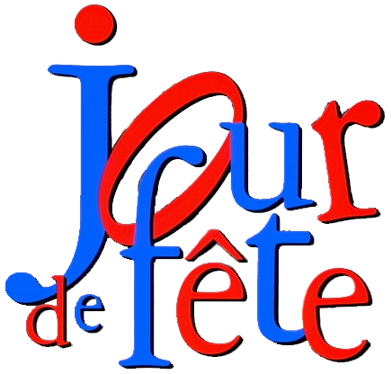 Fête du Drapeau .